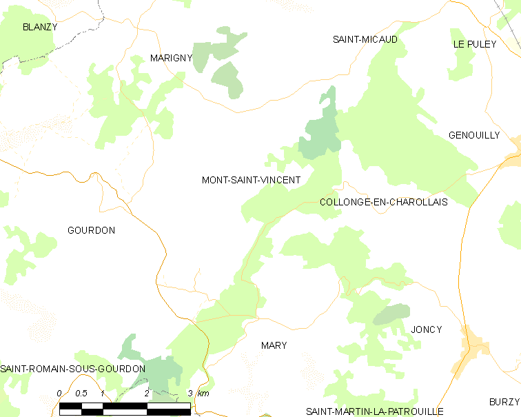 Map of French municipality